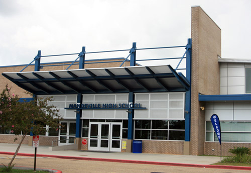 Front view of Mandeville High School